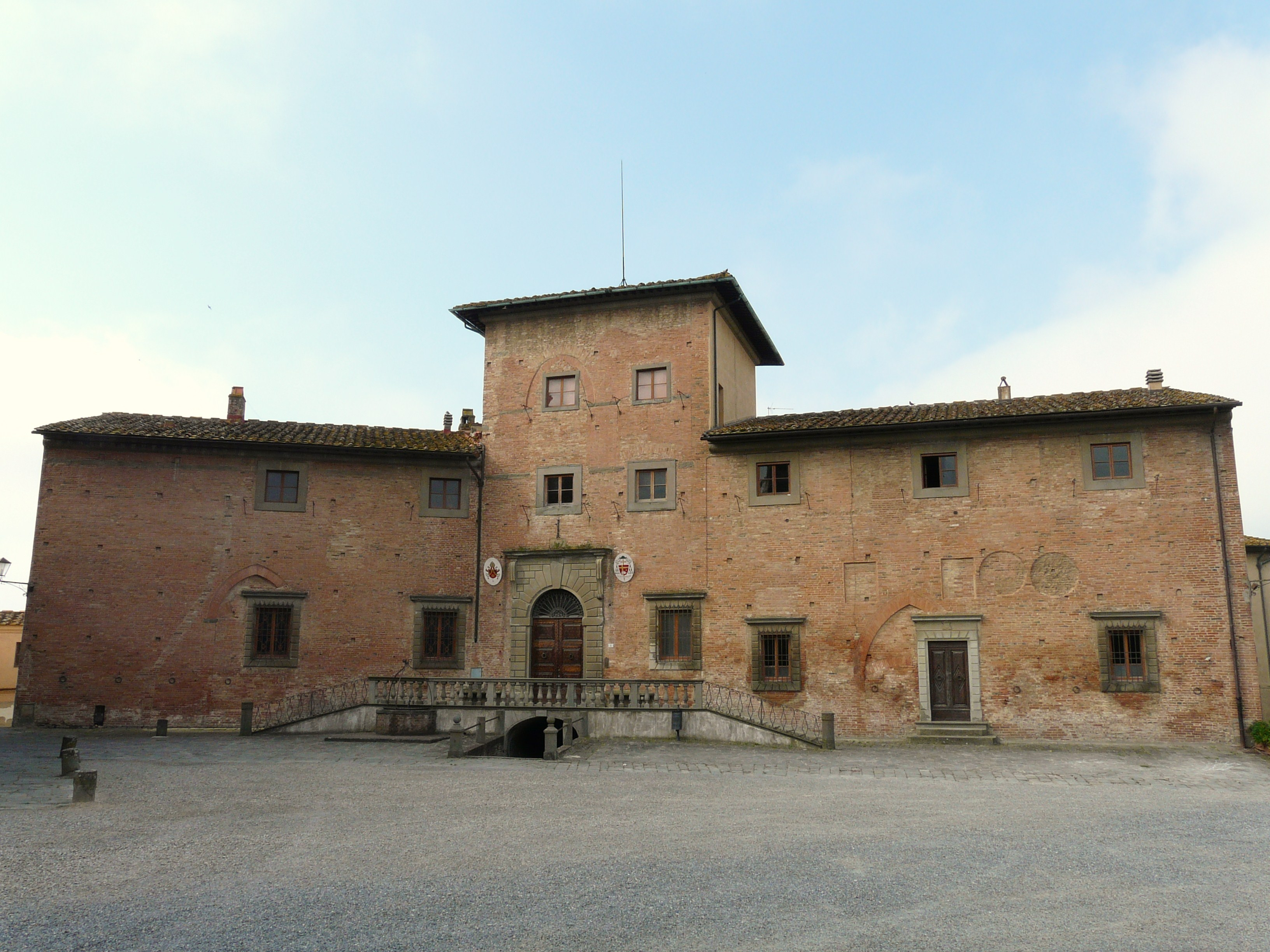 Former Episcopal Palace (Palazzo Vescovile), Municipality of San Miniato, Tuscany, Italy